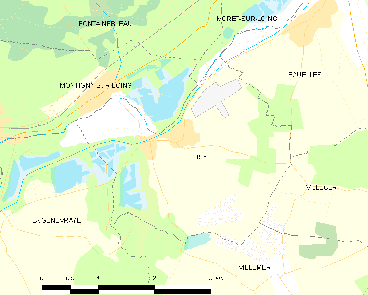 Map of French municipality Épisy